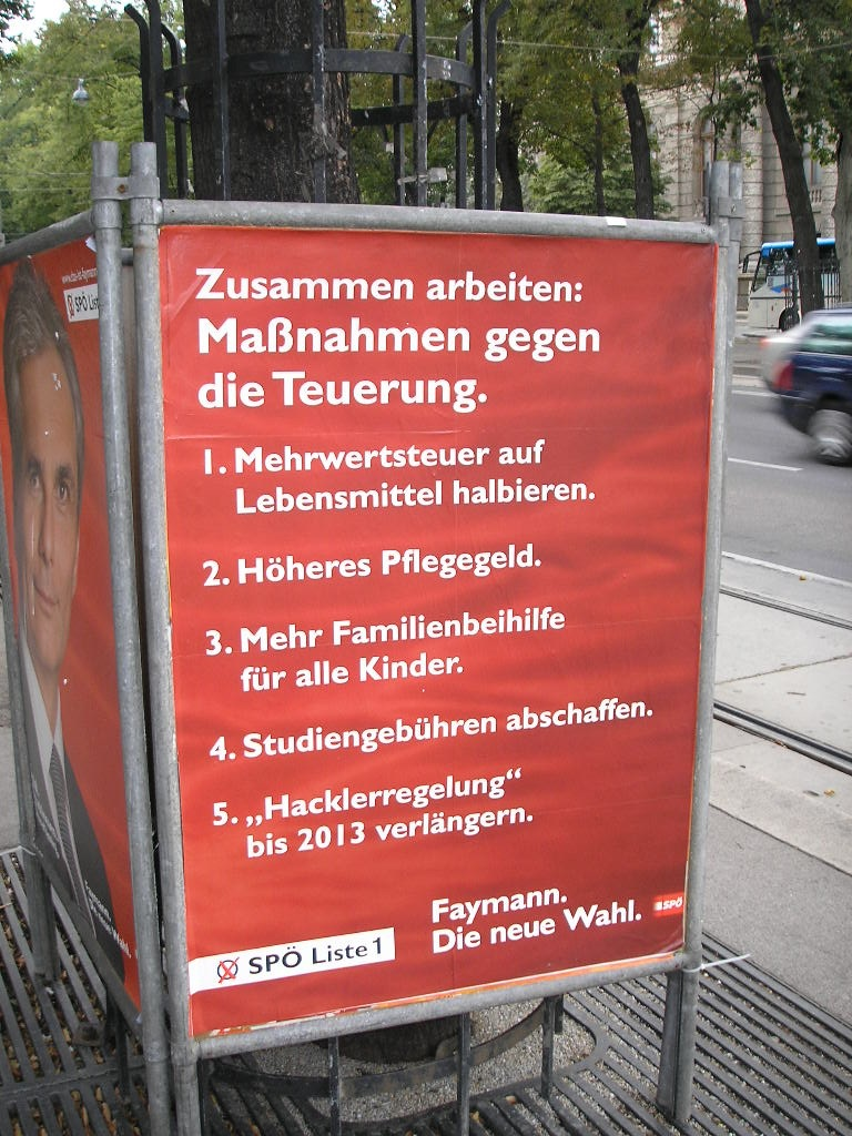 Election poster for the Social Democratic Party of Austria.